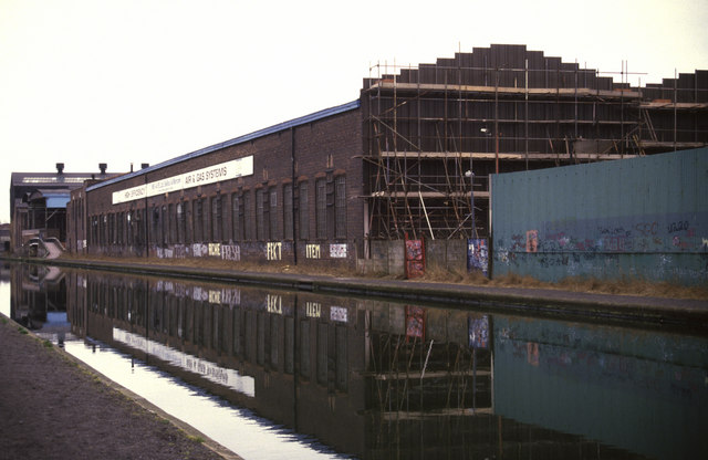 Belliss & Morcom Works, Ladywood This now closed works produced over 11,500 reciprocating steam engines and several thousand compressors too. Thanks to my efforts this site shows several examples of their products from hospitals to coke works. There used to be an engine in this big building but it is now at Enginuity, Coalbrookdale.